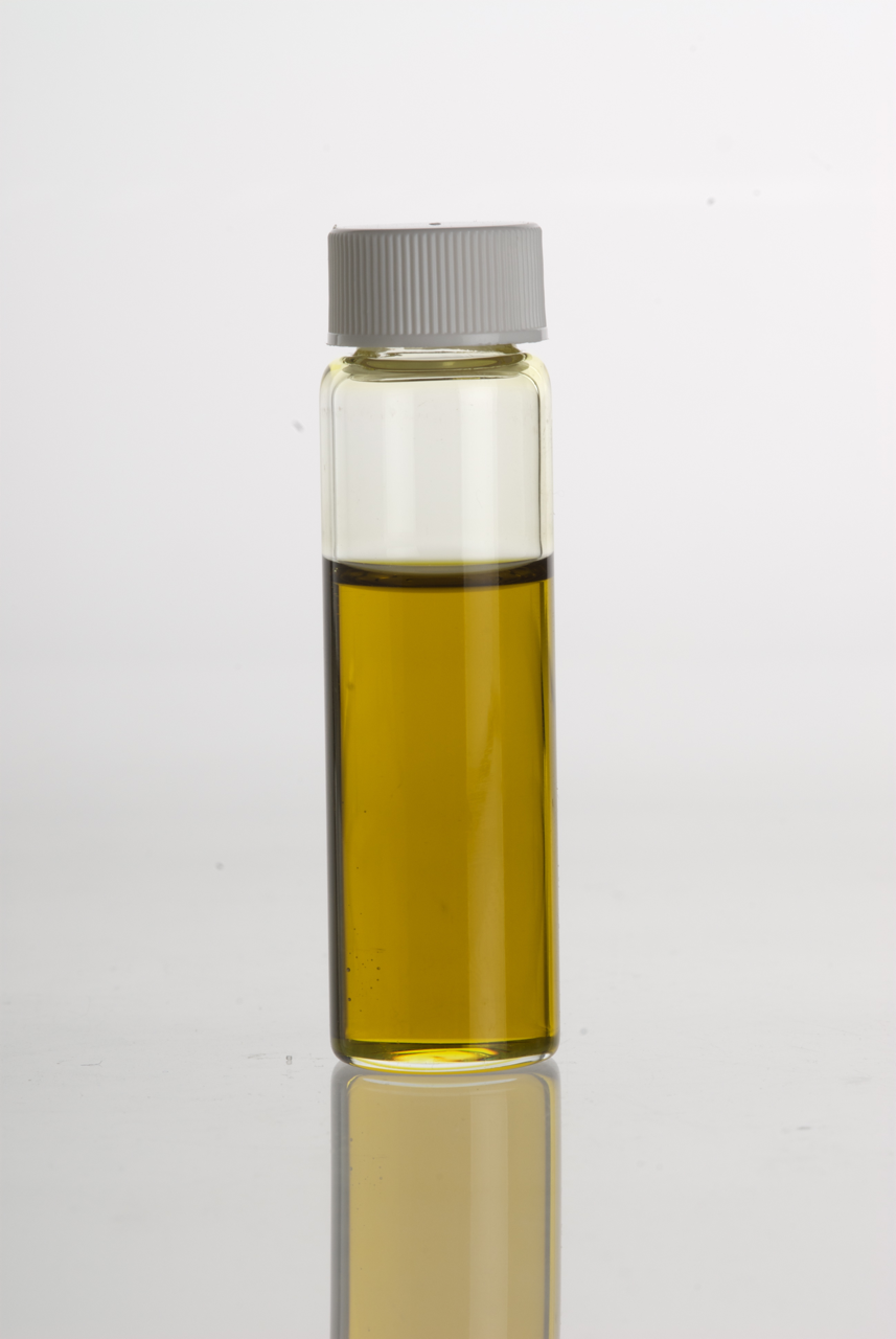 Avocado (Persea americana) Oil in clear glass vial